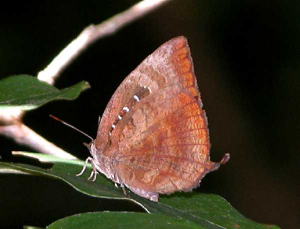 The Centaur Oakblue, Arhopala centaurus at Shendurney WLS, Kerala, India